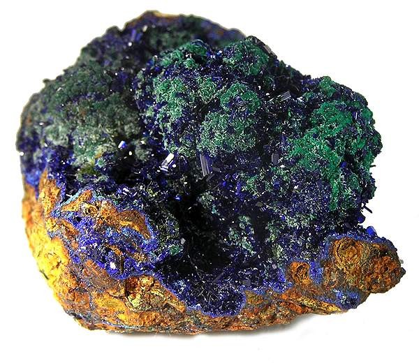 Azurite, Malachite Locality: Concepción del Oro, Municipio de Concepción del Oro, Zacatecas, Mexico (Locality at ) One of two Zacatecas azurites in this auction - this one, though a combo specimen with a beautiful balance of sparkly azurite microcrystals and pretty green malachite. Zacatecas specimens are exceptionally hard to get these days! Ex charlie freed collection 5.2 x 4.4 x 3.2 cm